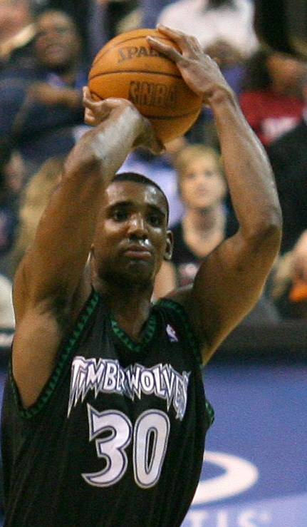 Mark Blount of the Minnesota Timberwolves attempts a jump shot.